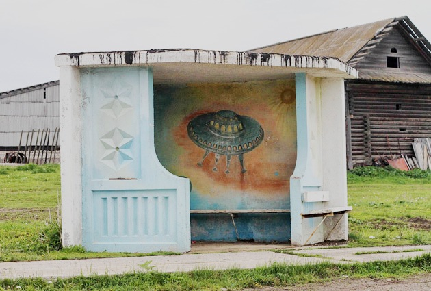 Остановка в Молёбке